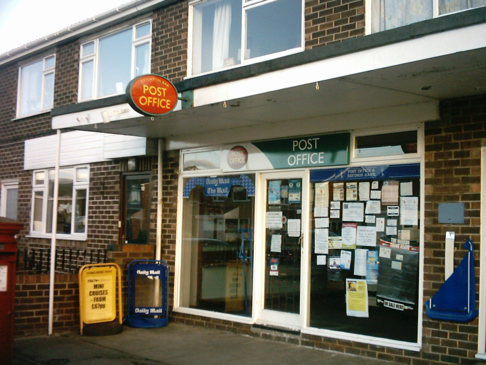 Deighton Bar Post Office on Aire Road, Ainsty, Wetherby, Leeds, West Yorkshire, UK.